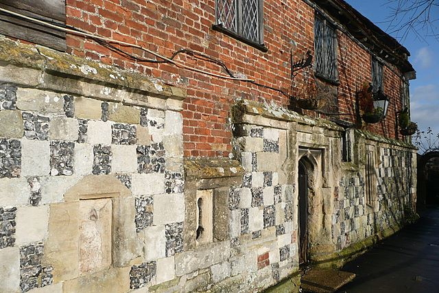 Old Mill, Harnham This restaurant is a grade 1 listed building built around 1135. Here is some of the very old stonework on the east wall above the mill race of the River Nadder, although the oldest stonework probably dates from around 1250 (just before lunch then).